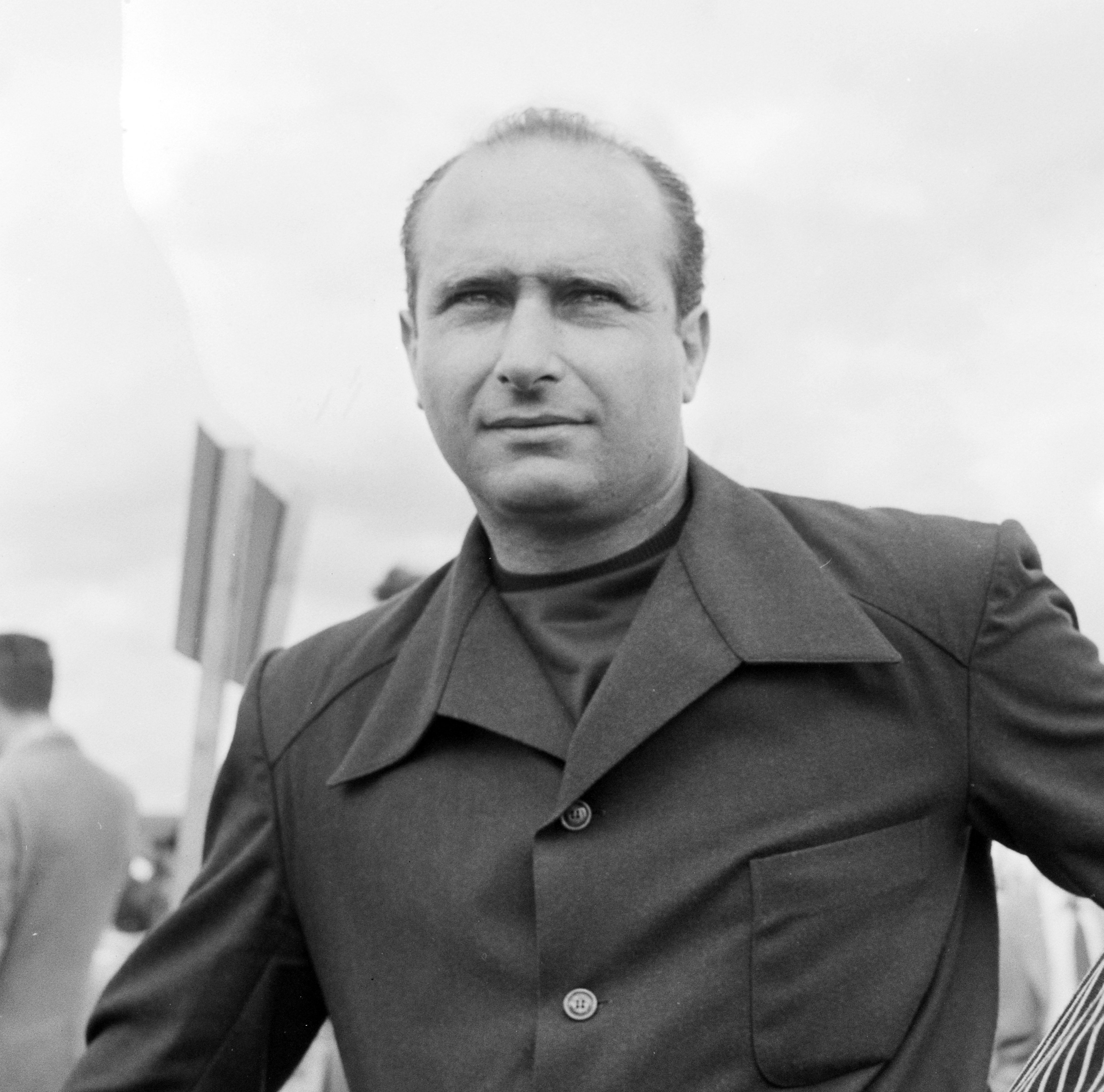 Juan Manuel Fangio at the Kristianstad Grand Prix, Sweden, August 7, 1955